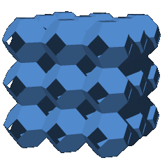 Second regular infinite skew polyhedron of Petrie and Coxeter